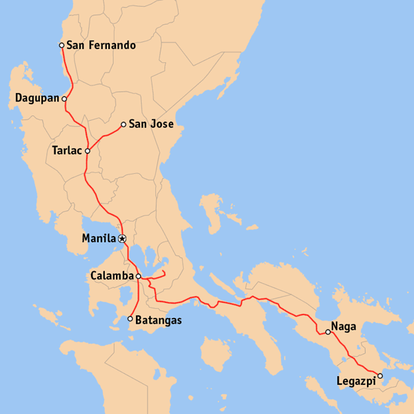 Map of the Philippine National Railways system, based on this image. Made by User:TheCoffee. Released under the GFDL.